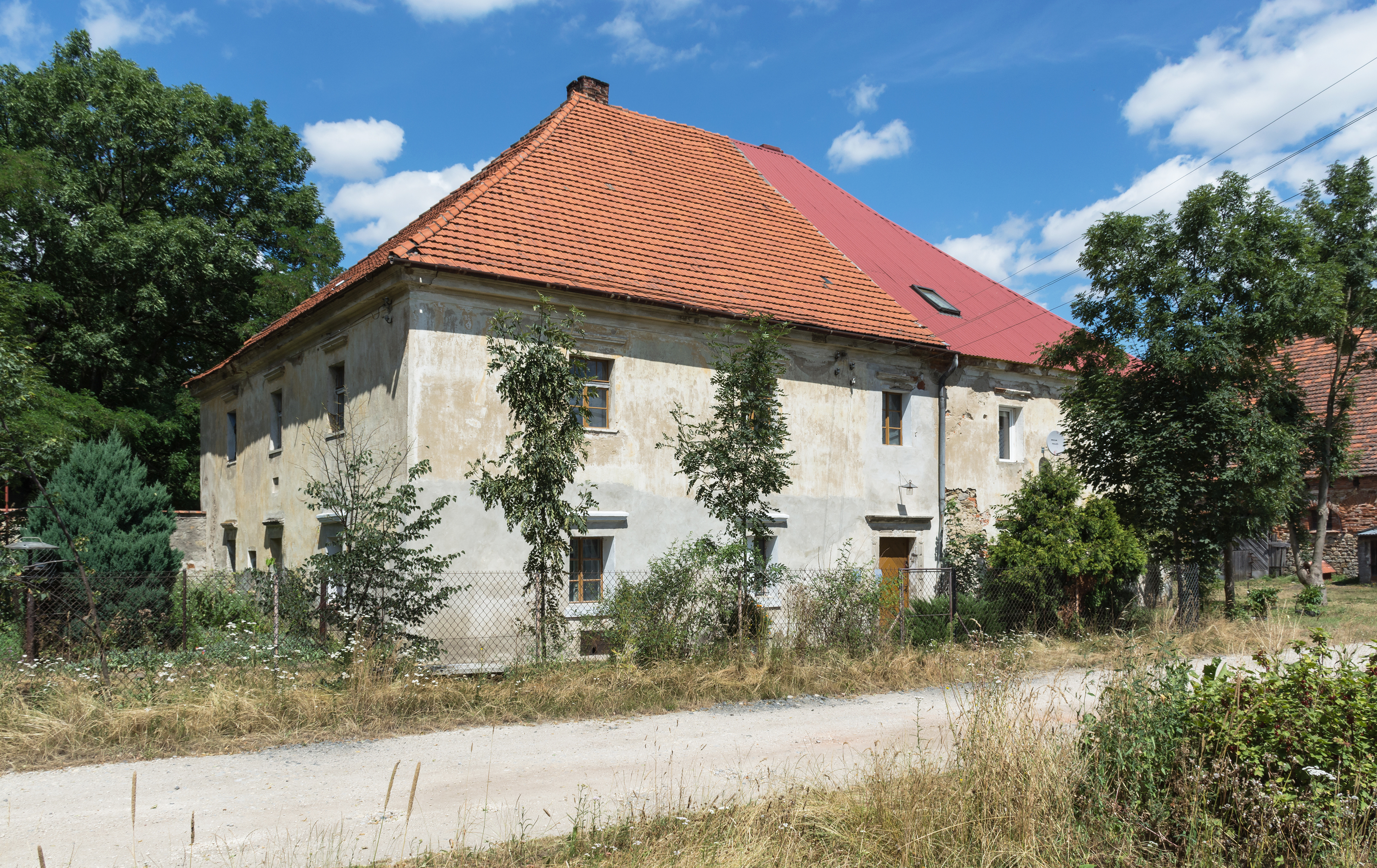 Muszyn Manor in Gorzanów